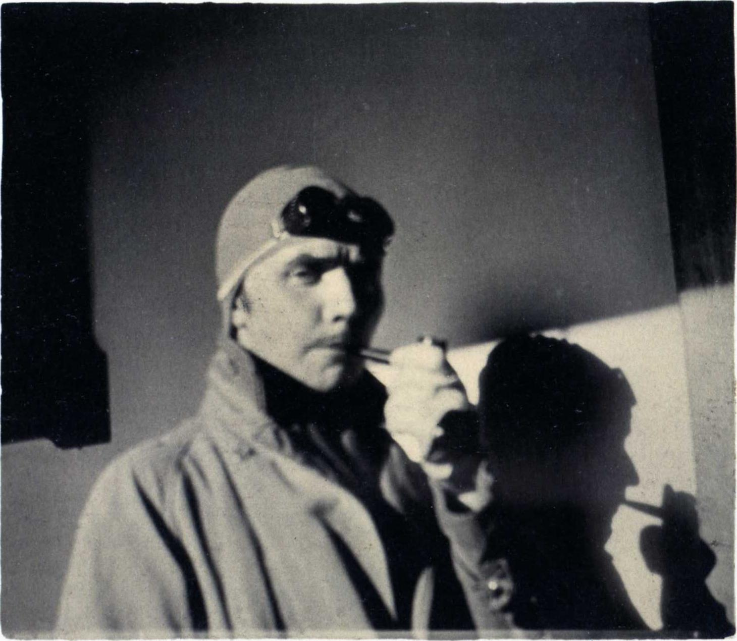 Portrait of Nelly van Doesburg as I.K. Bonset.